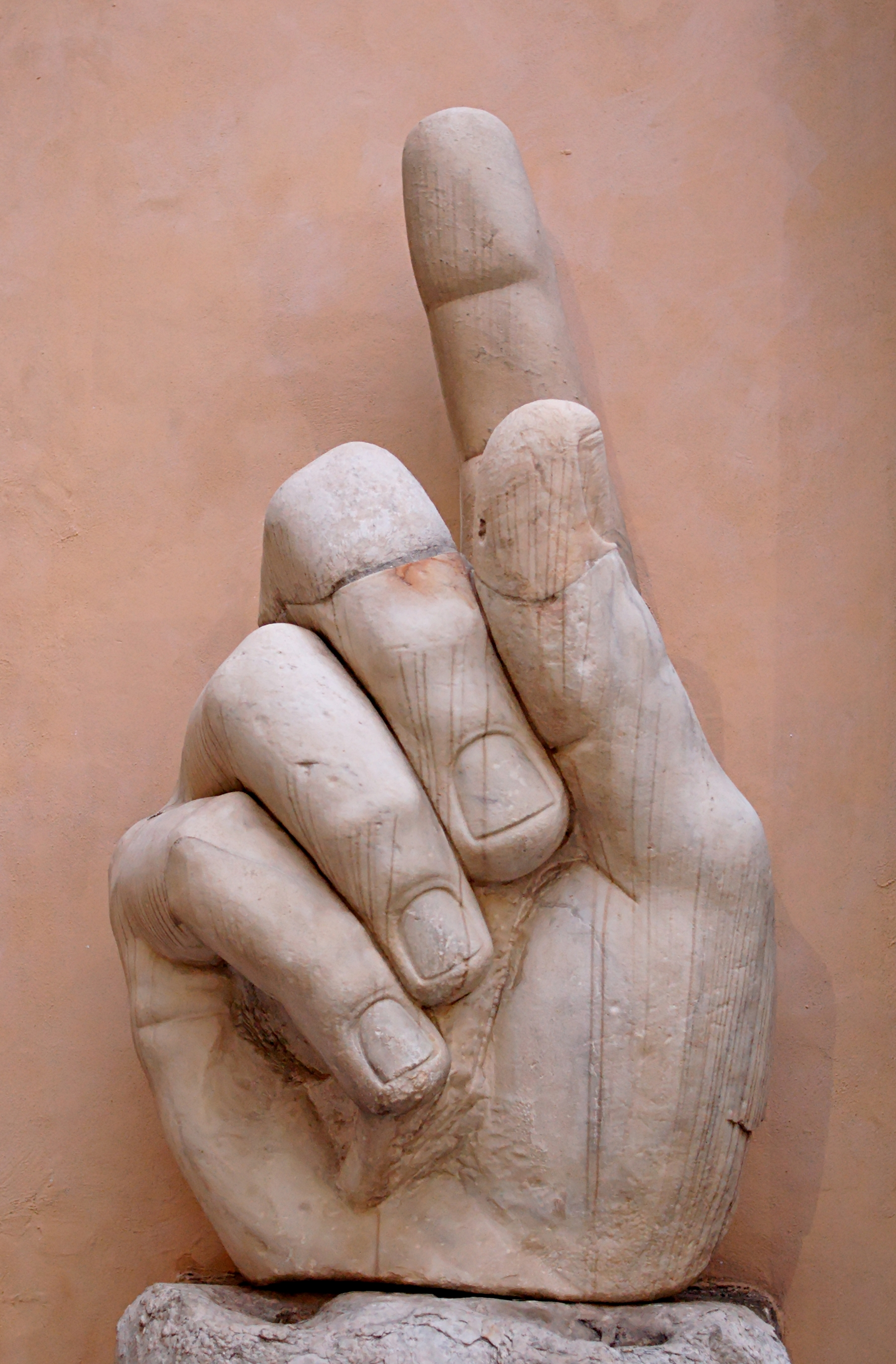 Right hand of the colossal statue of Constantine I, Musei Capitolini, Rome. Marble, Roman artwork, 313–324 CE.